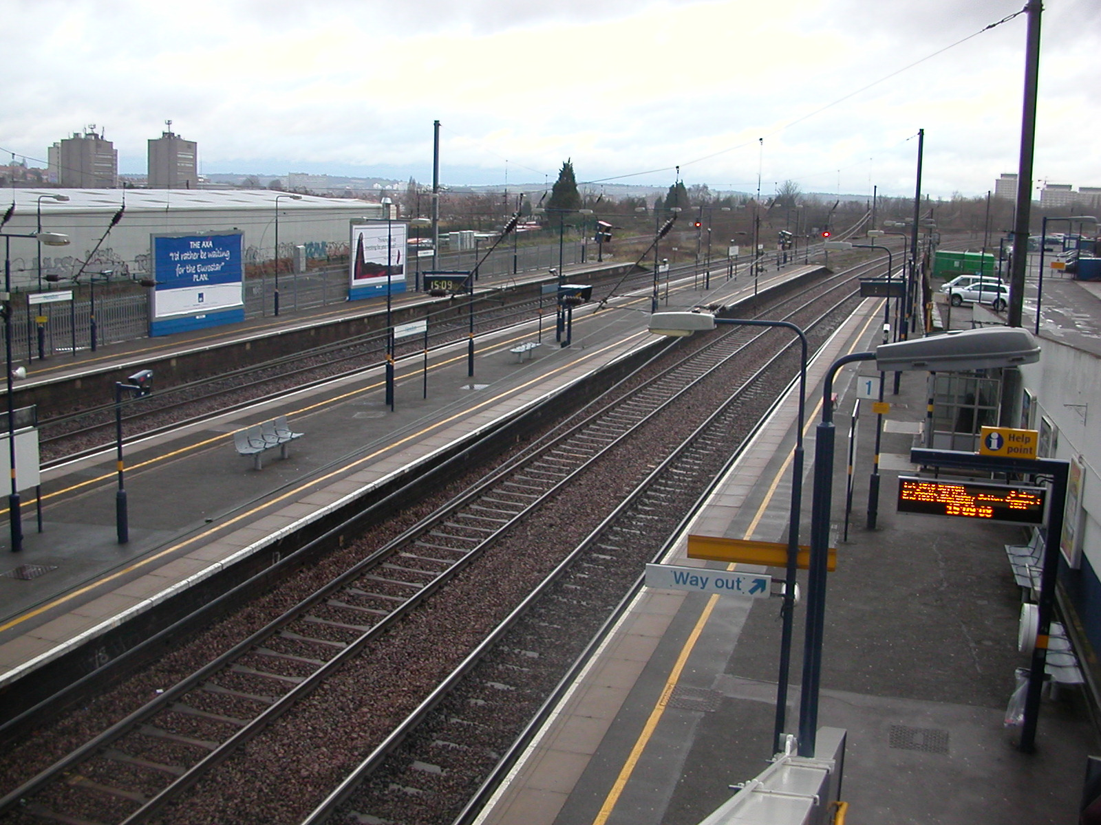 Northbound view of Hendon station. Photographed on 13th January 2007.